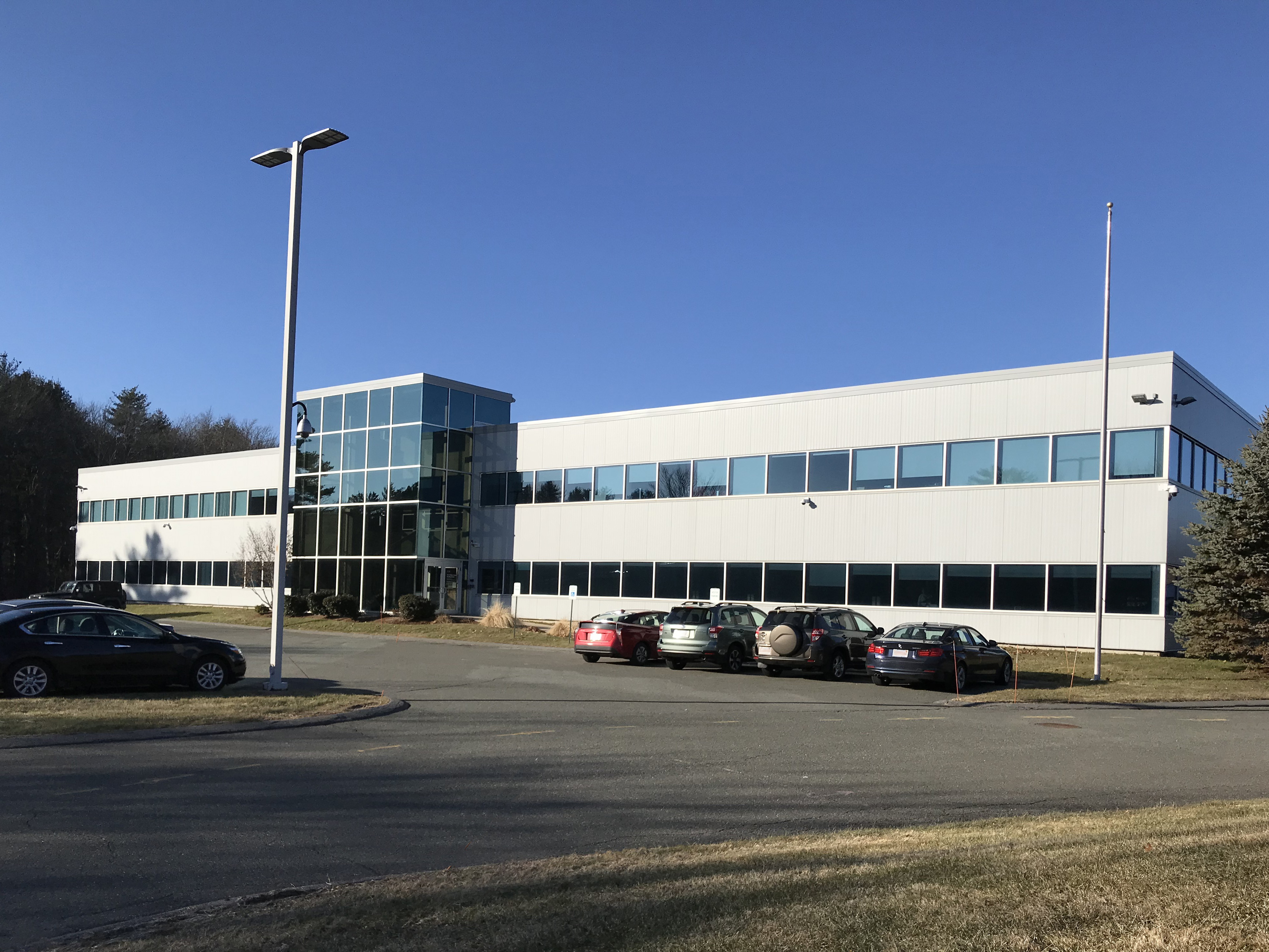 The Peabody Essex Museum (PEM) Collection Center, 306 Newburyport Turnpike, Rowley, Massachusetts. The Phillips Library is located on the right first floor of the building.